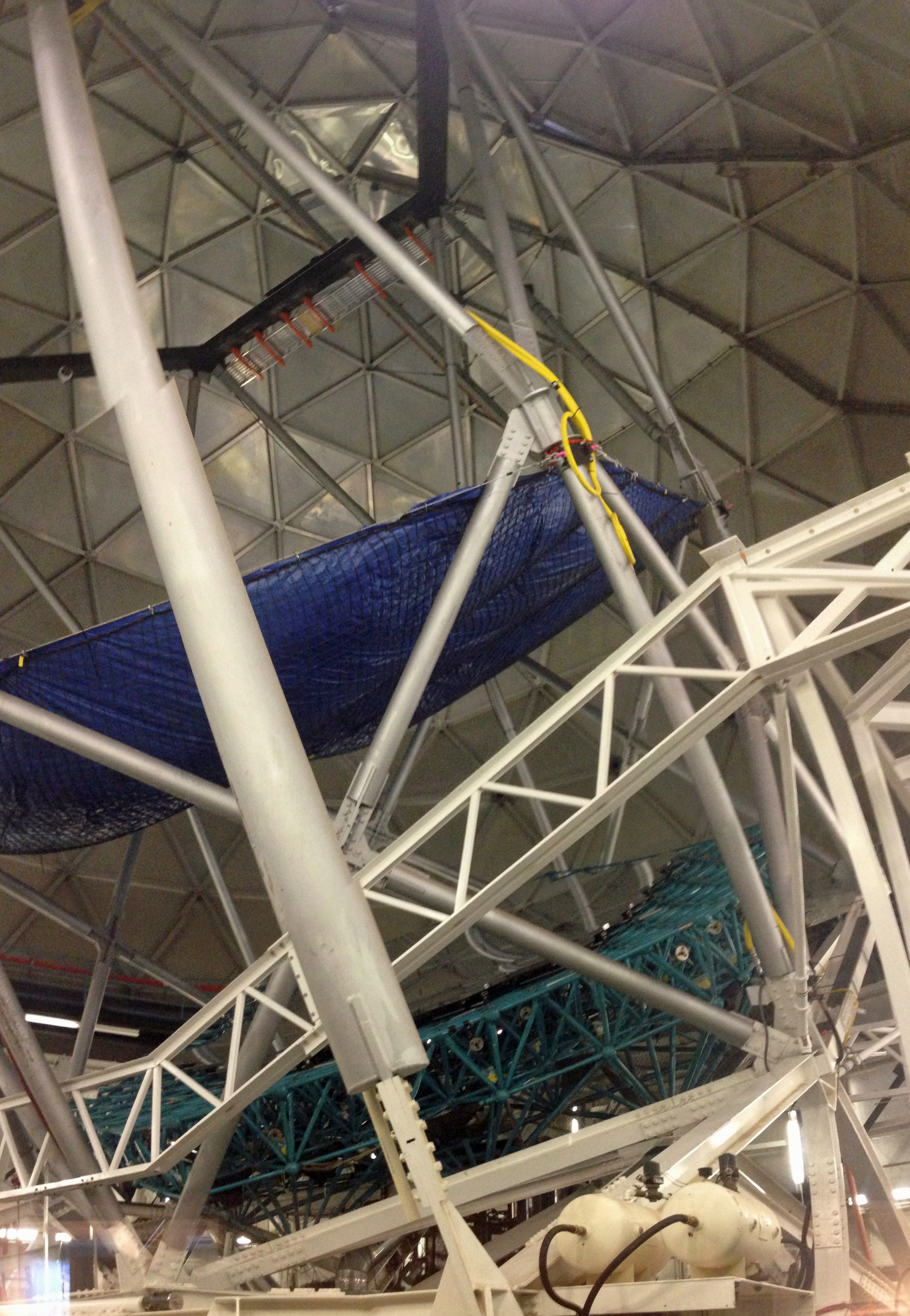 The interior of the Hobby-Eberly Telescope at the McDonald Observatory, Texas. Photo taken on October 19, 2013 at which time it was undergoing modifications.